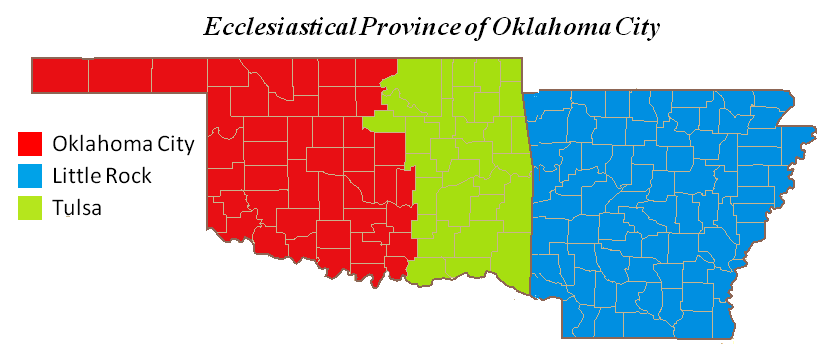 The Ecclesiastical Province of Oklahoma City in the Catholic Church encompasses the dioceses in Oklahoma and Arkansas, USA.